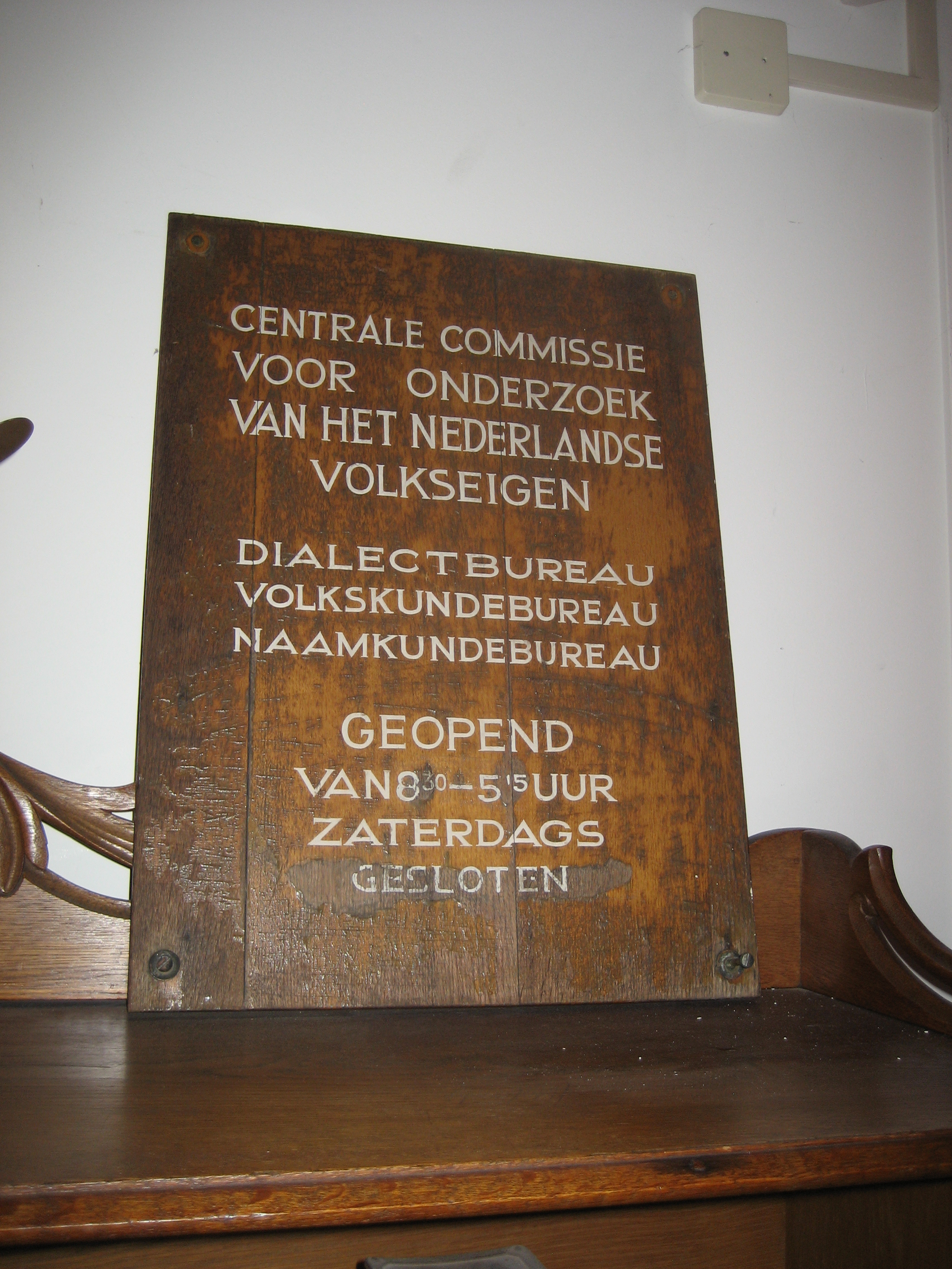 Meertens Instituut, Joan Muyskenweg 25, Amsterdam, The Netherlands. Text: "Centrale commissie voor onderzoek van het Nederlandse volkseigen. Dialectbureau, Volkskundebureau, Naamkundebureau. Geopend van 8.30 -5.15 uur. Zaterdags gesloten."